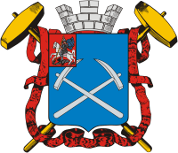 Podolsk (Moscow oblast), coat of arms (1883)